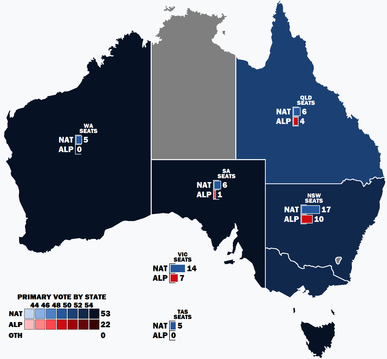 Result of the primary vote by state in the 1917 Australian federal election.